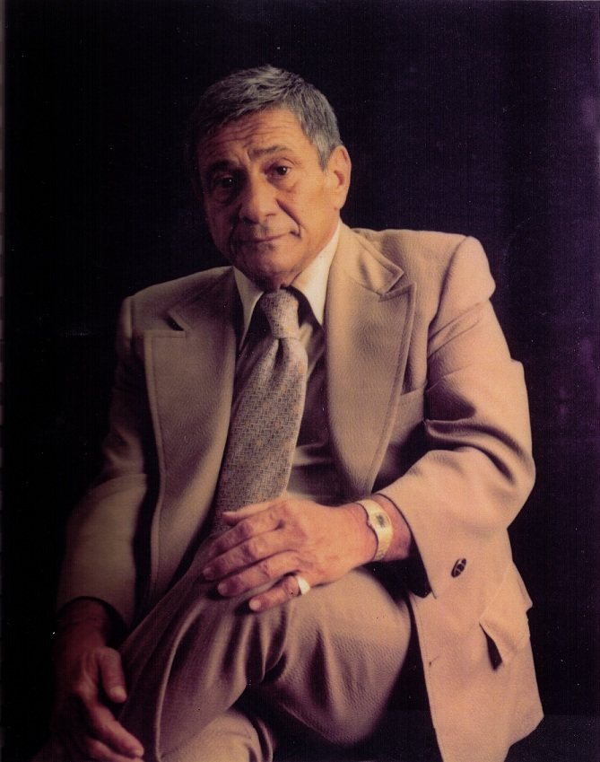 Photo of Tony Grosso in 1977